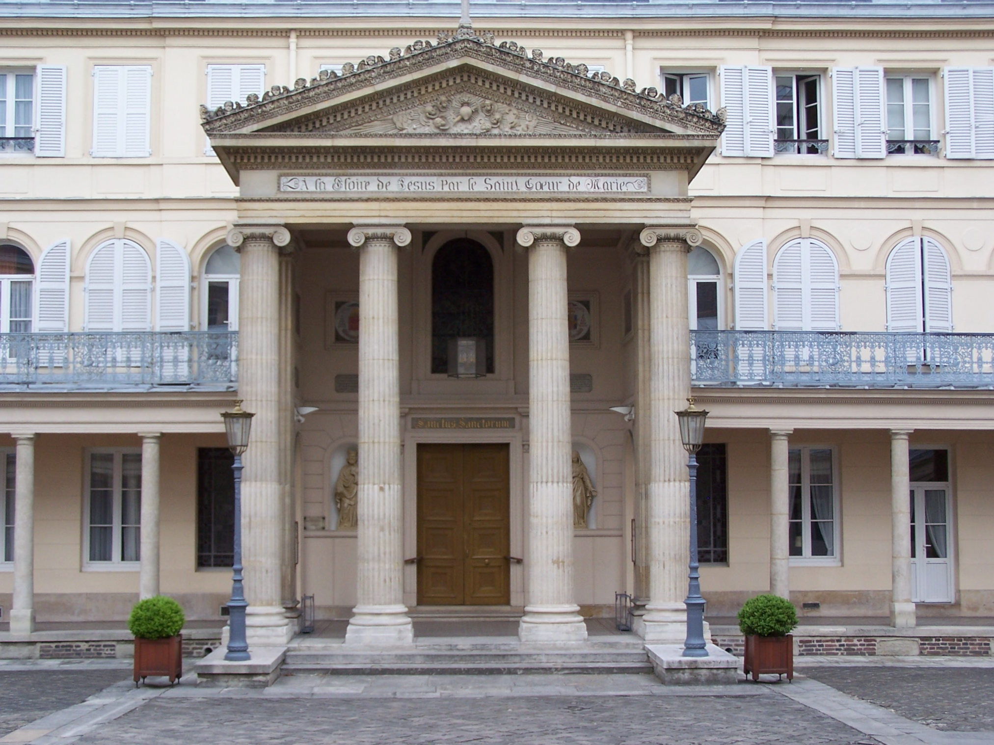 View of the chapel (built in 1840 by architect Antoine-Casimir Chaland) of the Dames Augustines du Saint-Cœur-de-Marie covent at rue de la Santé in Paris